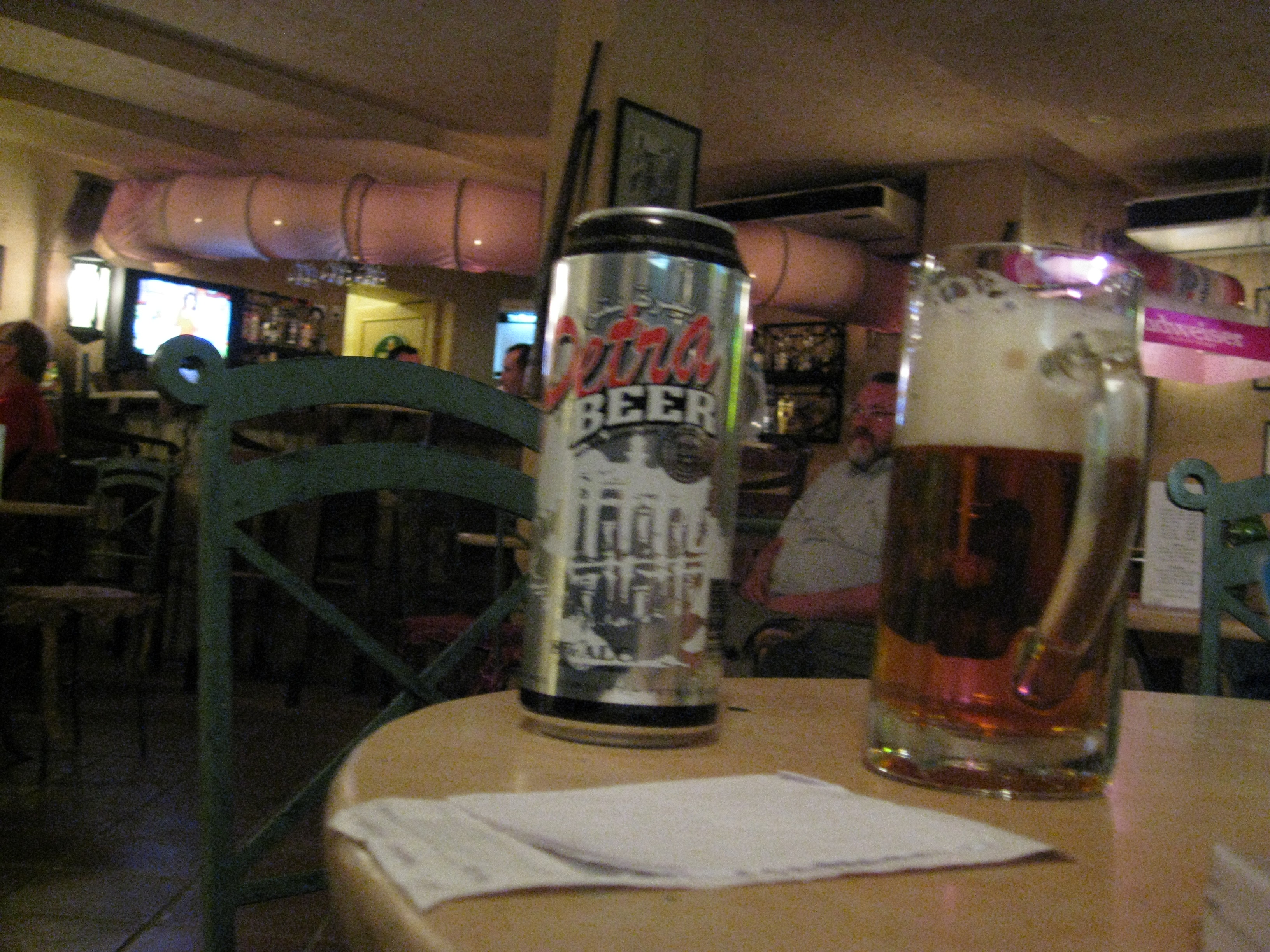 Jordanian beer